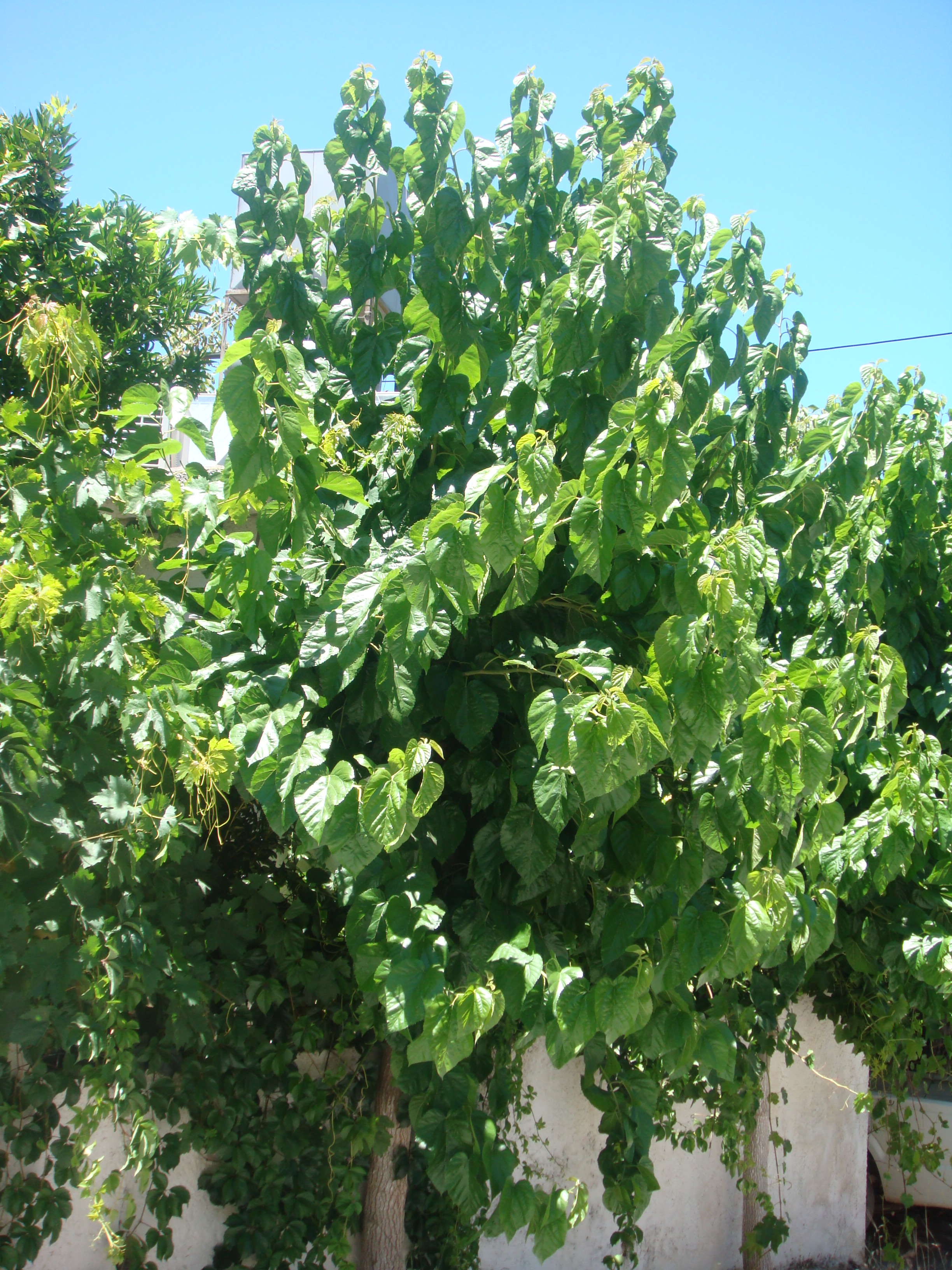 A tree called 'murnia' locally, in Milliarado, Iraklion prefecture.